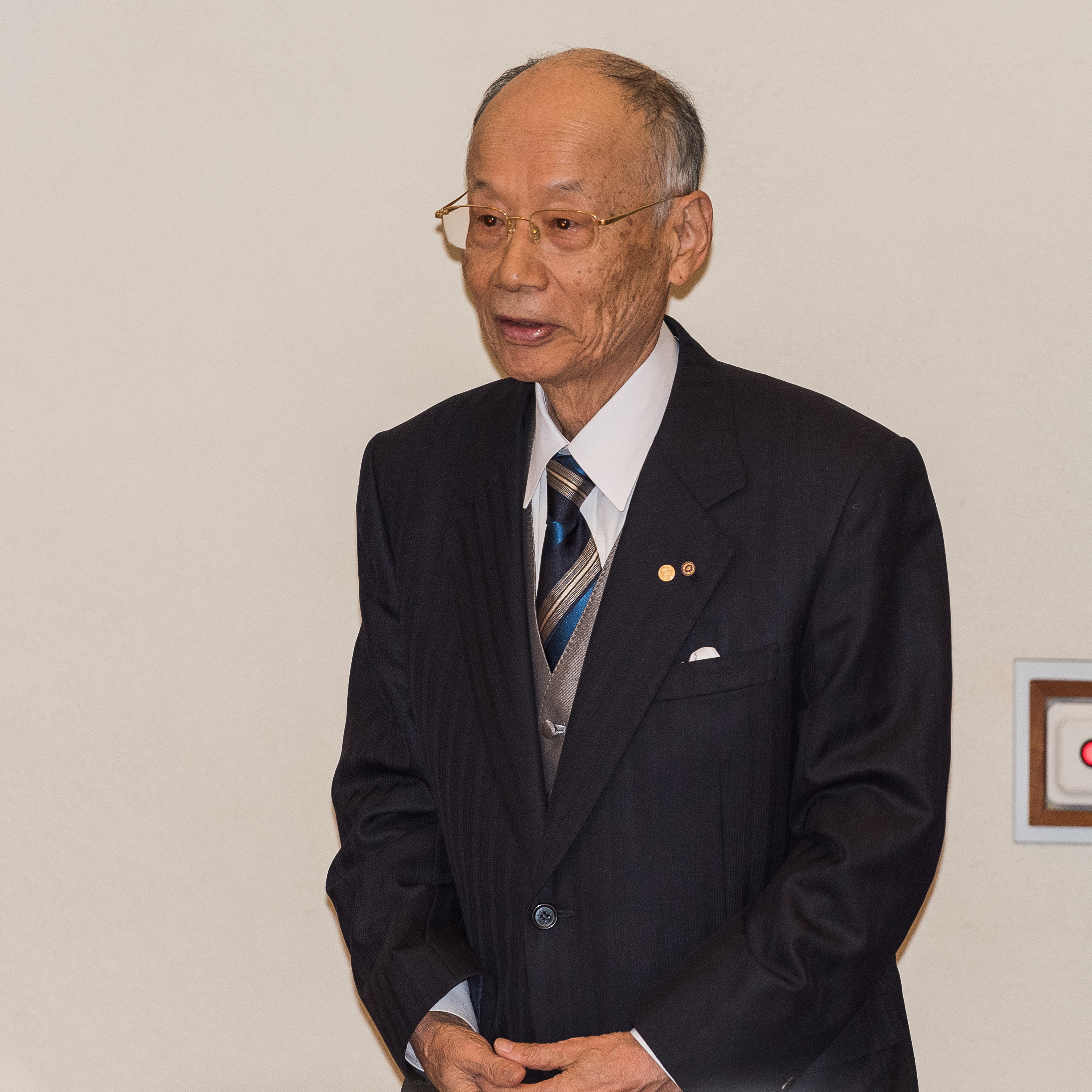 Satoshi Ōmura Nobel Laureate in medicine in Stockholm December 2015